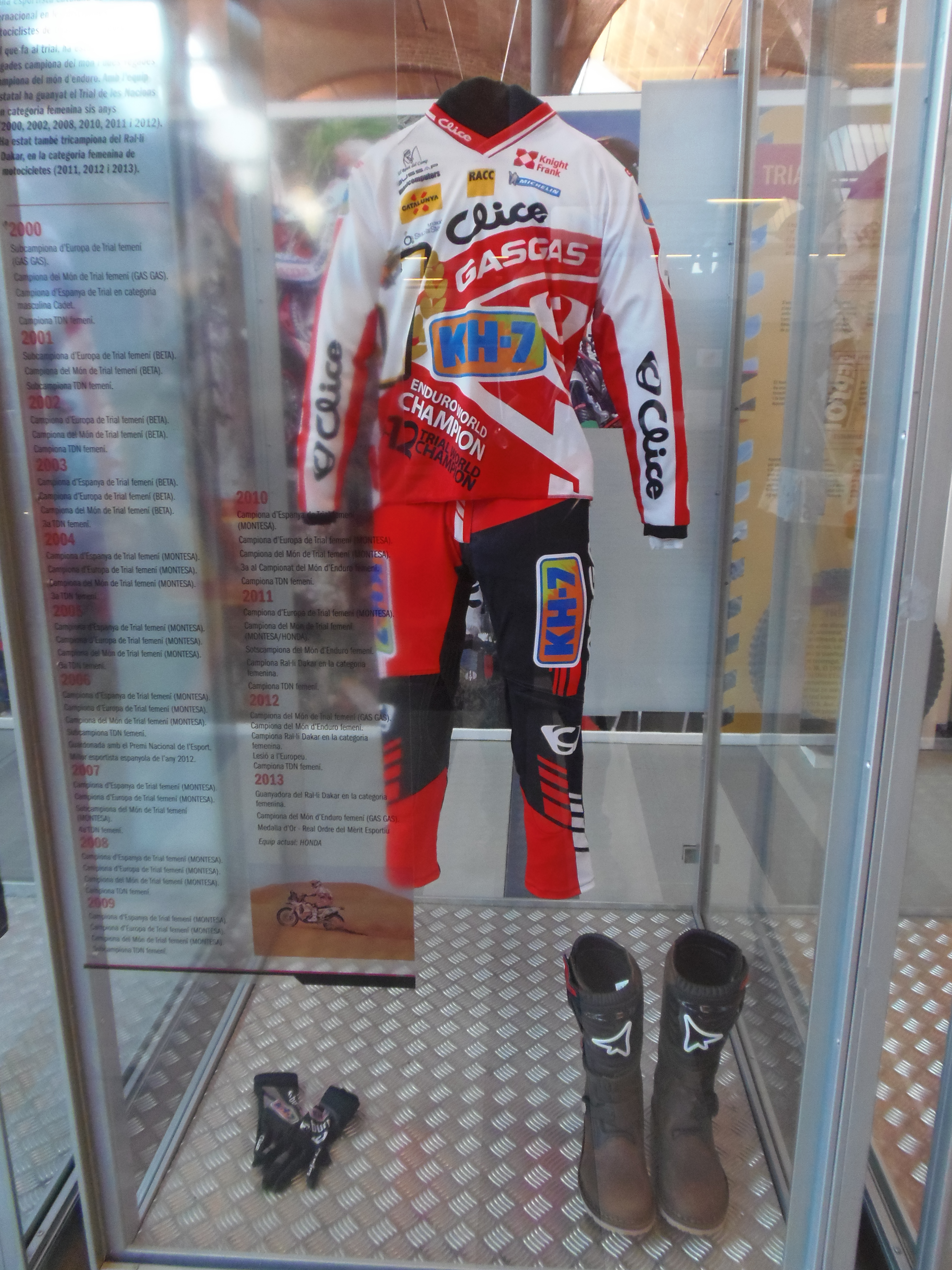 The equipment that wore Laia Sanz during the Dakar Rally 2012